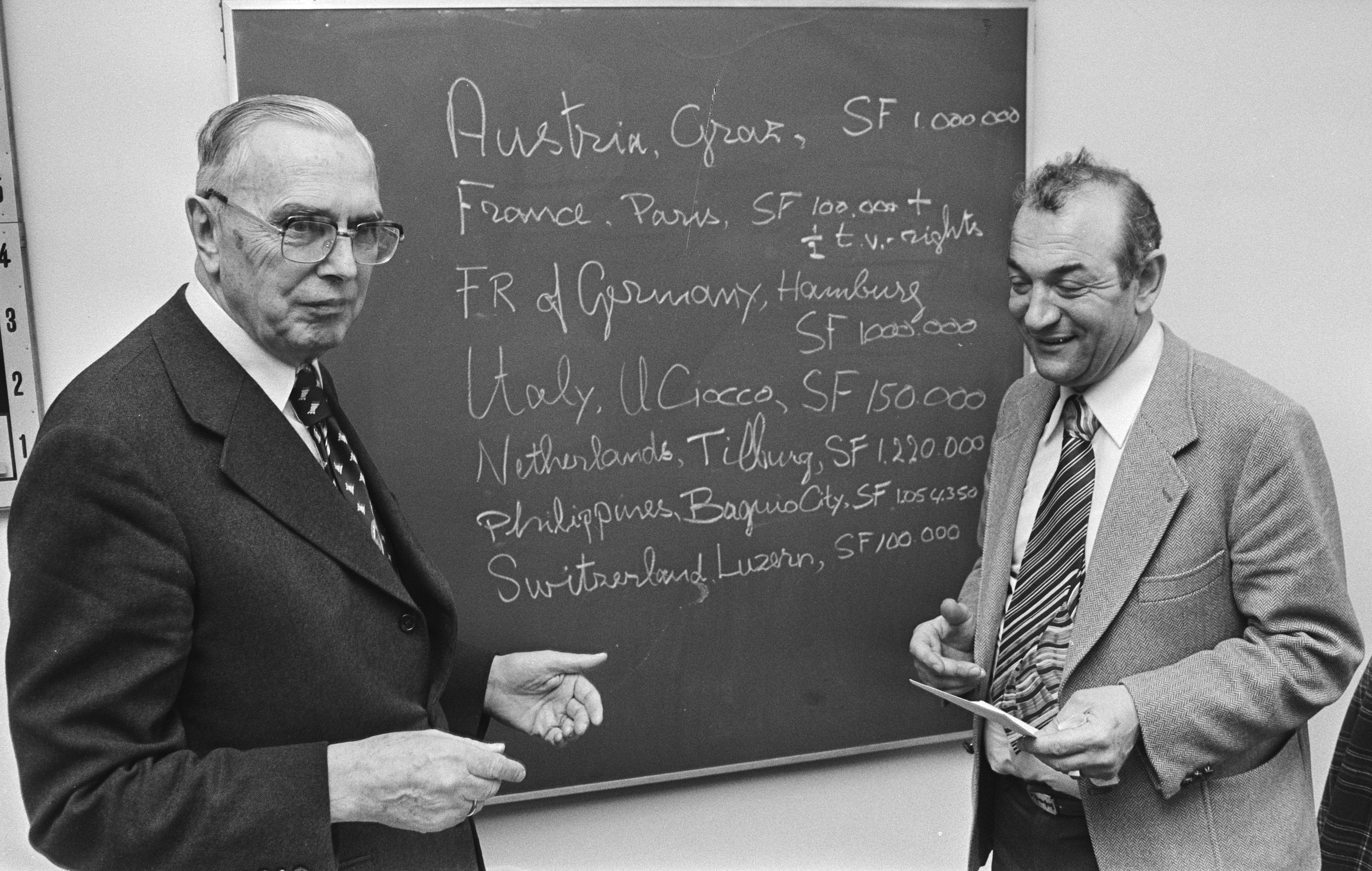 Max Euwe and Viktor Korchnoi